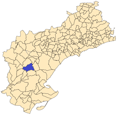 Benifallet